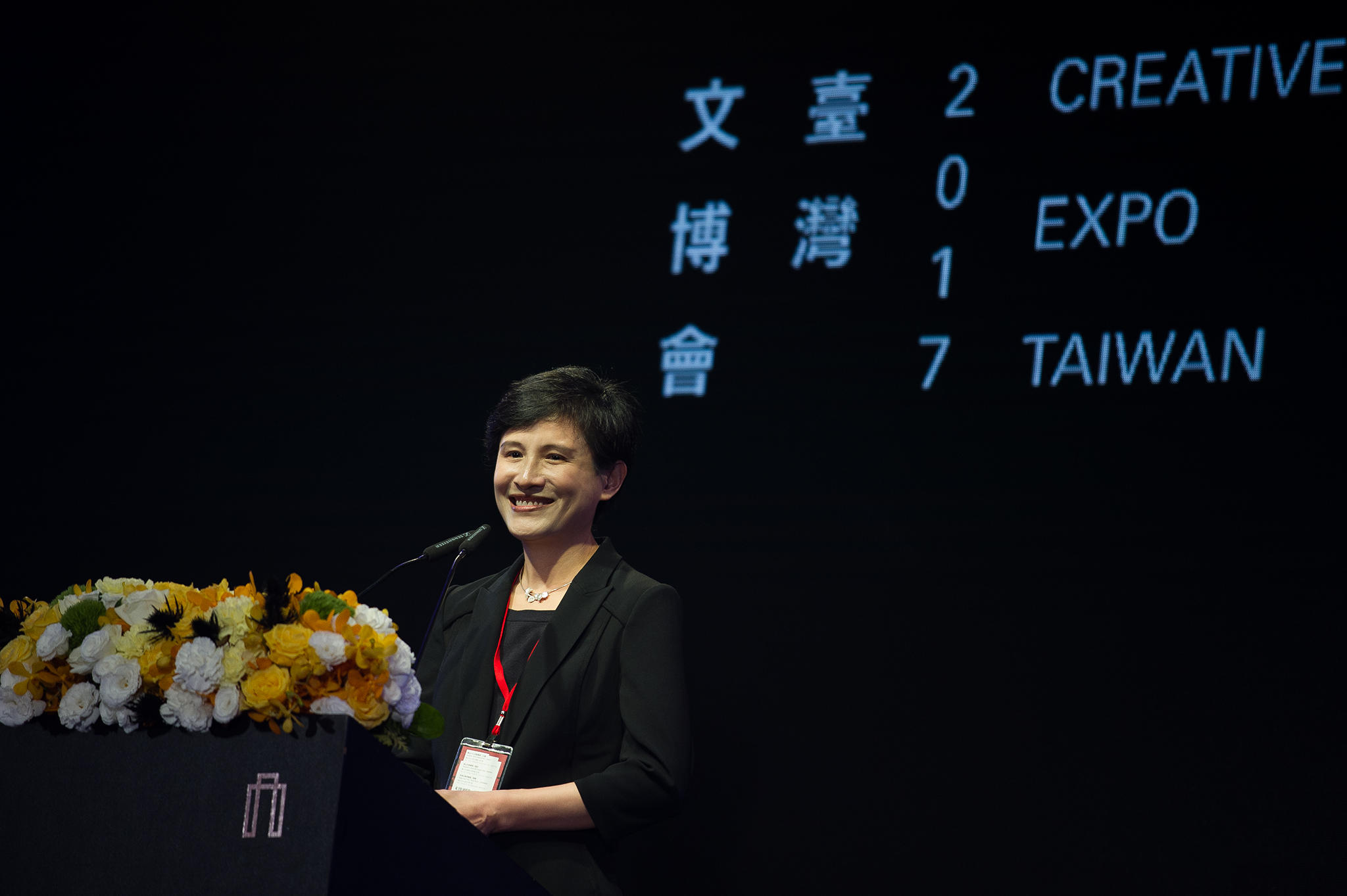 授權方式及範圍：中華民國總統府│政府網站資料開放宣告 Authorization Method & Scope: Office of the President, Republic of China (Taiwan) | Government Website Open Information Announcement